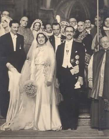 Maria Francesca of Savoy and Luigi Carlo of Bourbon-Parma wedding 1939-01-23